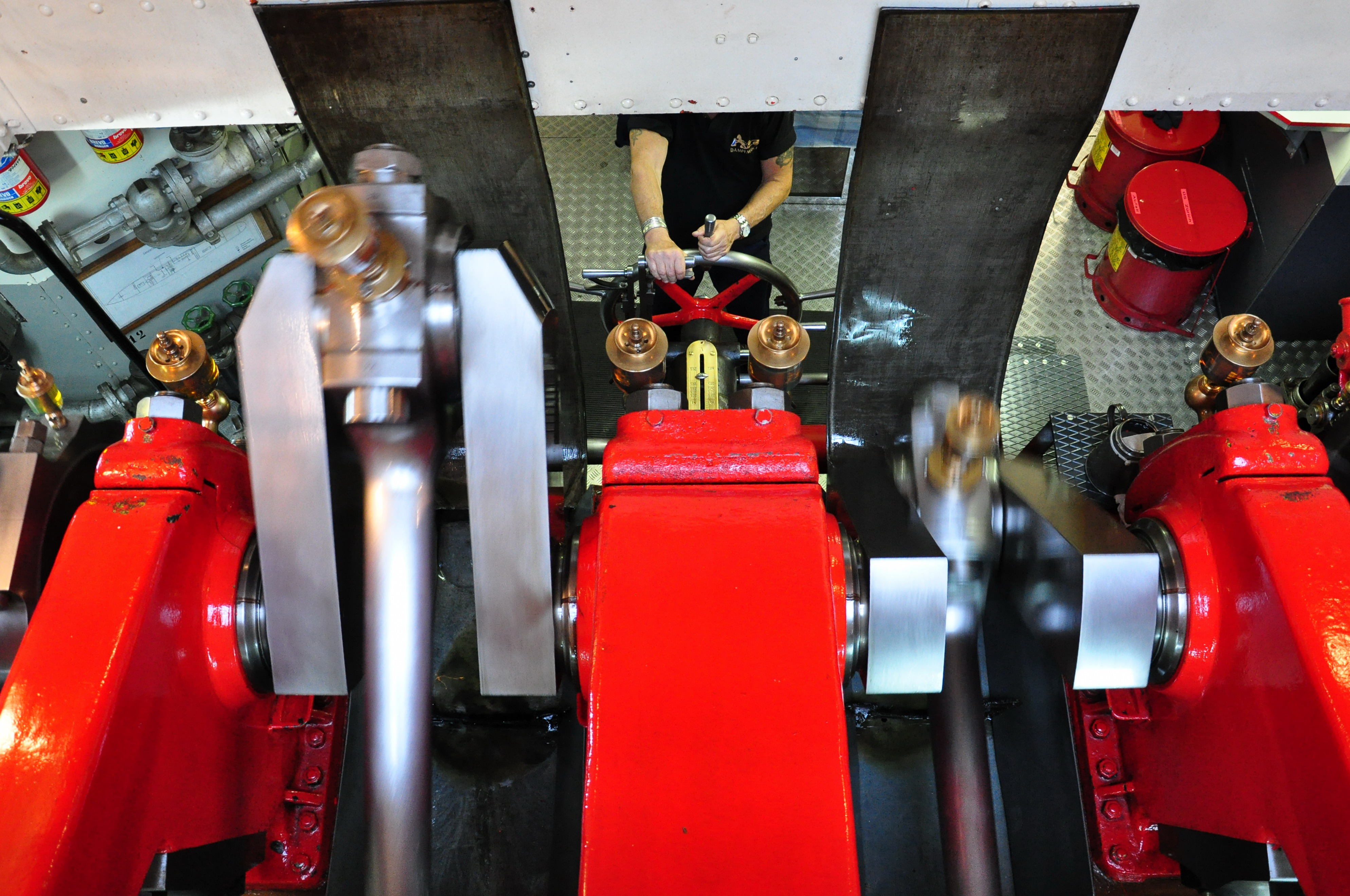 Zürichsee-Schiffahrtsgesellschaft (ZSG) paddle steamer Stadt Zürich on Zürichsee (Lake Zürich).